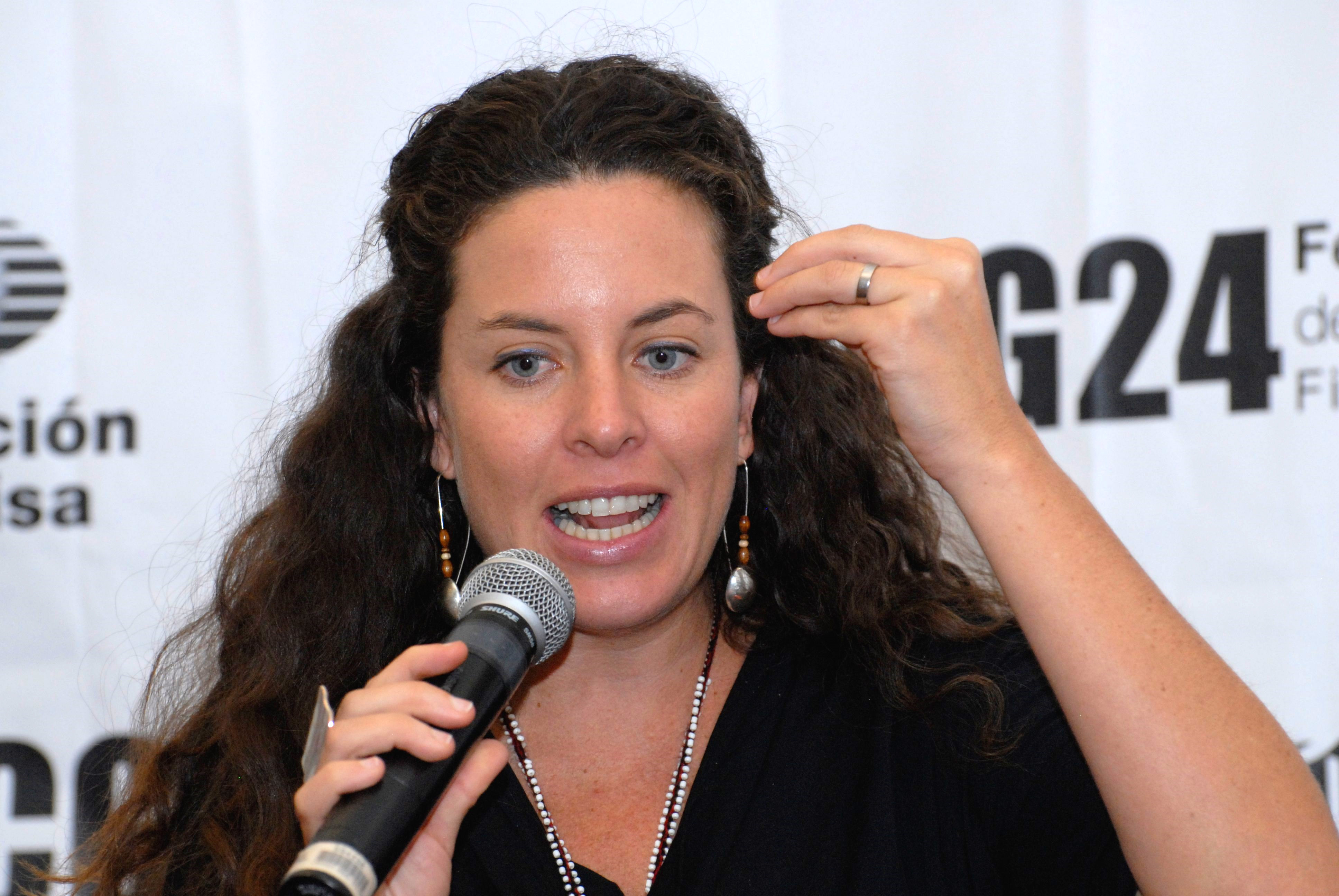 Peruvian film director Claudia Llosa (Festival Internacional de Cine en Guadalajara, Mexico, 2009-03-23)